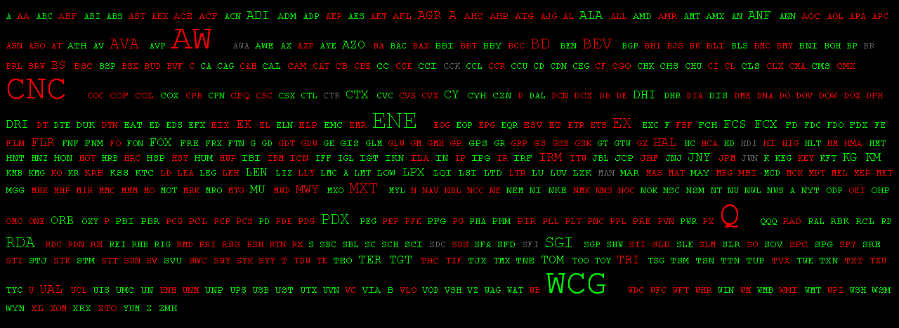 Data cloud graph showing the closing percentage increase or decrease of the New York Stock Exchange. Only the top 500 stocks by volume traded are displayed. Data is from Oct 2001, source: NYSE